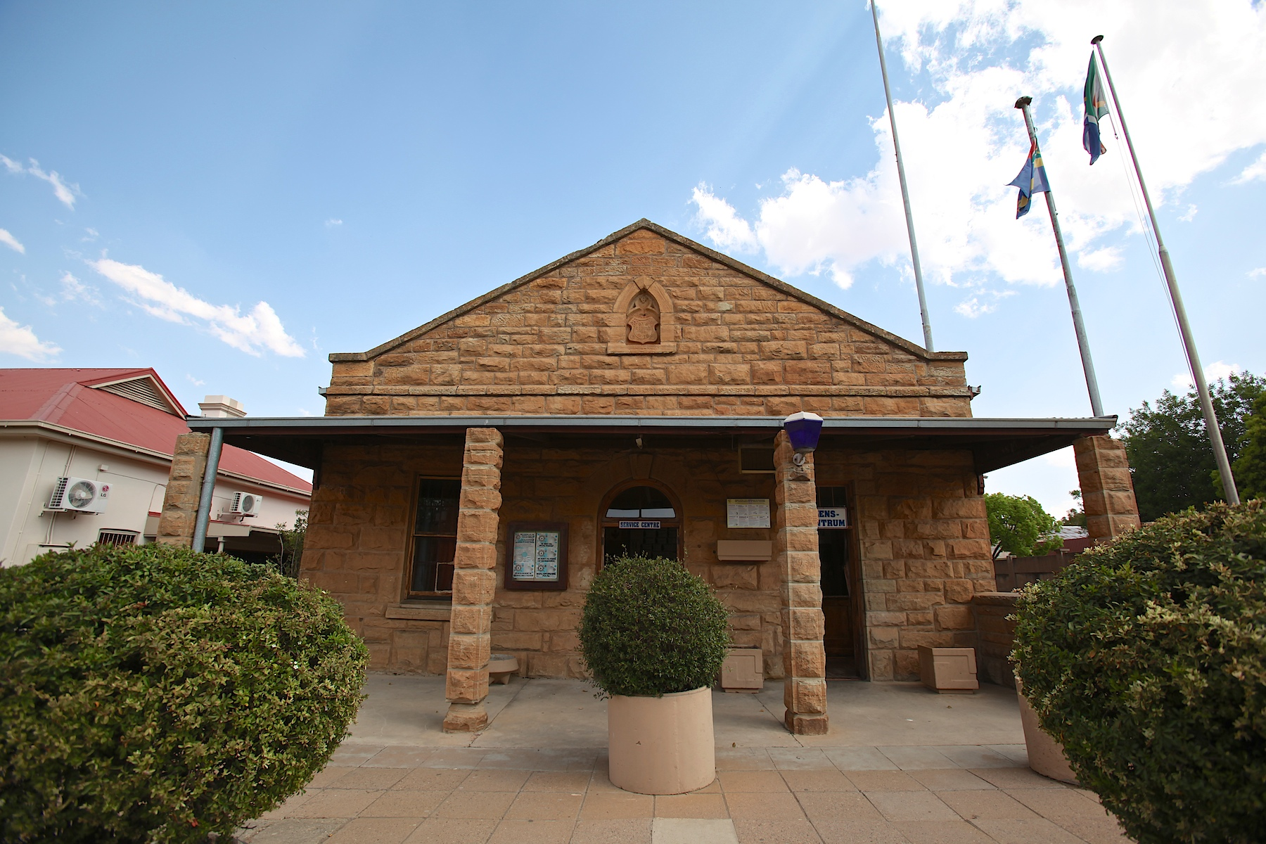 Old Police Station Vredefort This media shows a South African Protected Site with SAHRA file reference 0.